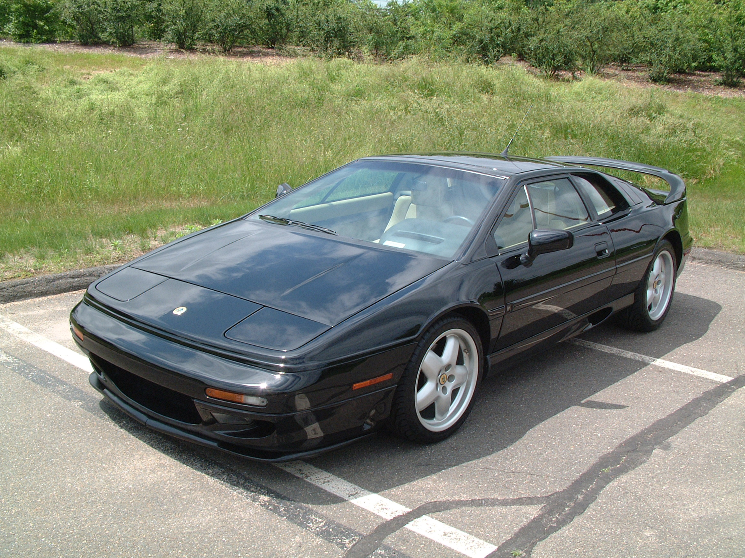 Description: Front left quarter view of 1995 Lotus Esprit S4s number 3049. Source: Self-taken digital photograph Date: 14 Jun 2003 Photographer: Peter A Bergeron